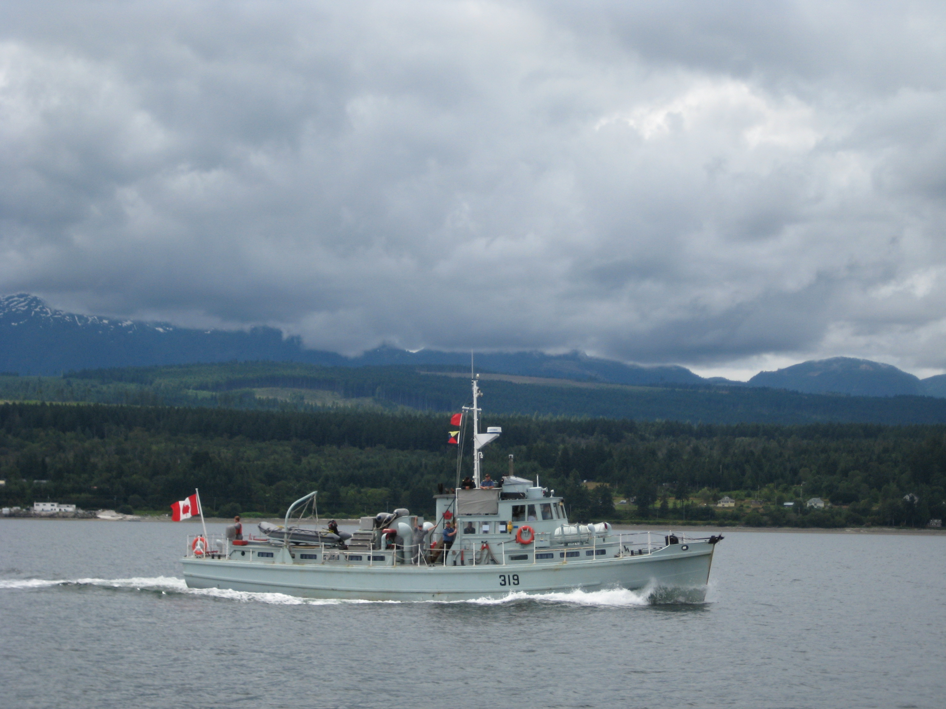 Yard Auxiliary General (YAG) 319 flies Bravo Zulu, while supporting Marine Engineering training for HMCS QUADRA